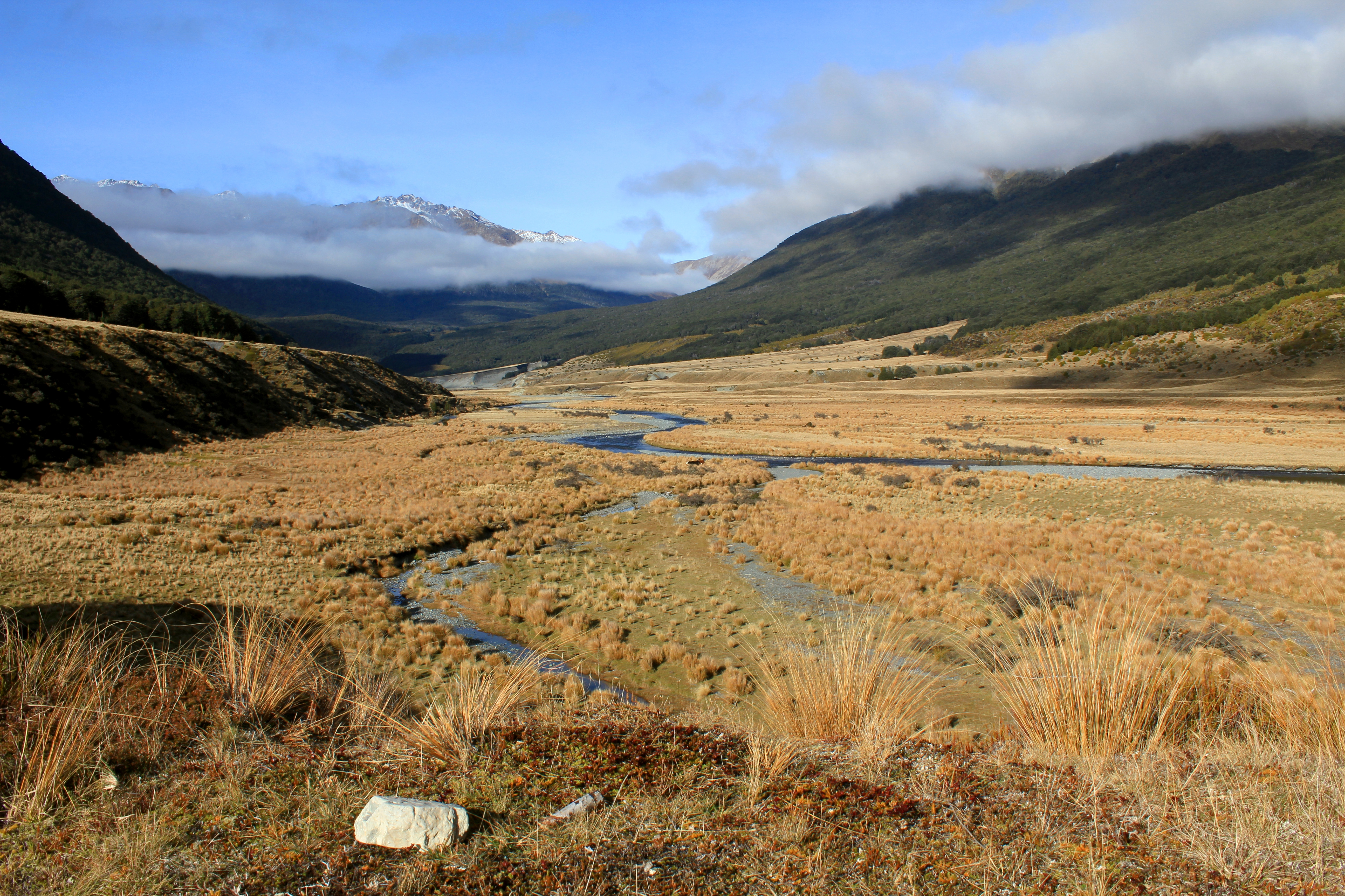 The Greenstone Valley, Otago, New Zealand